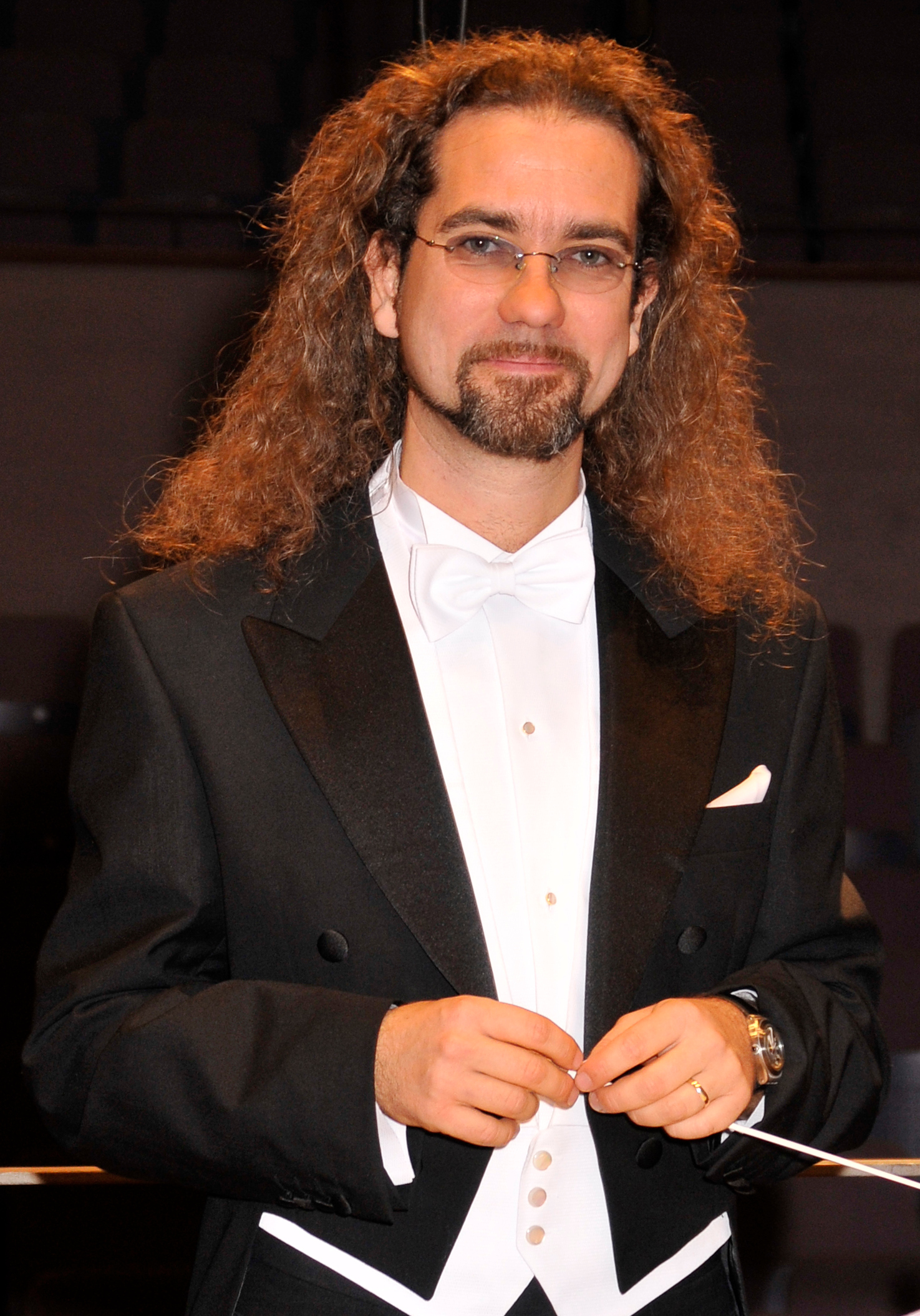 Wolf Kerschek